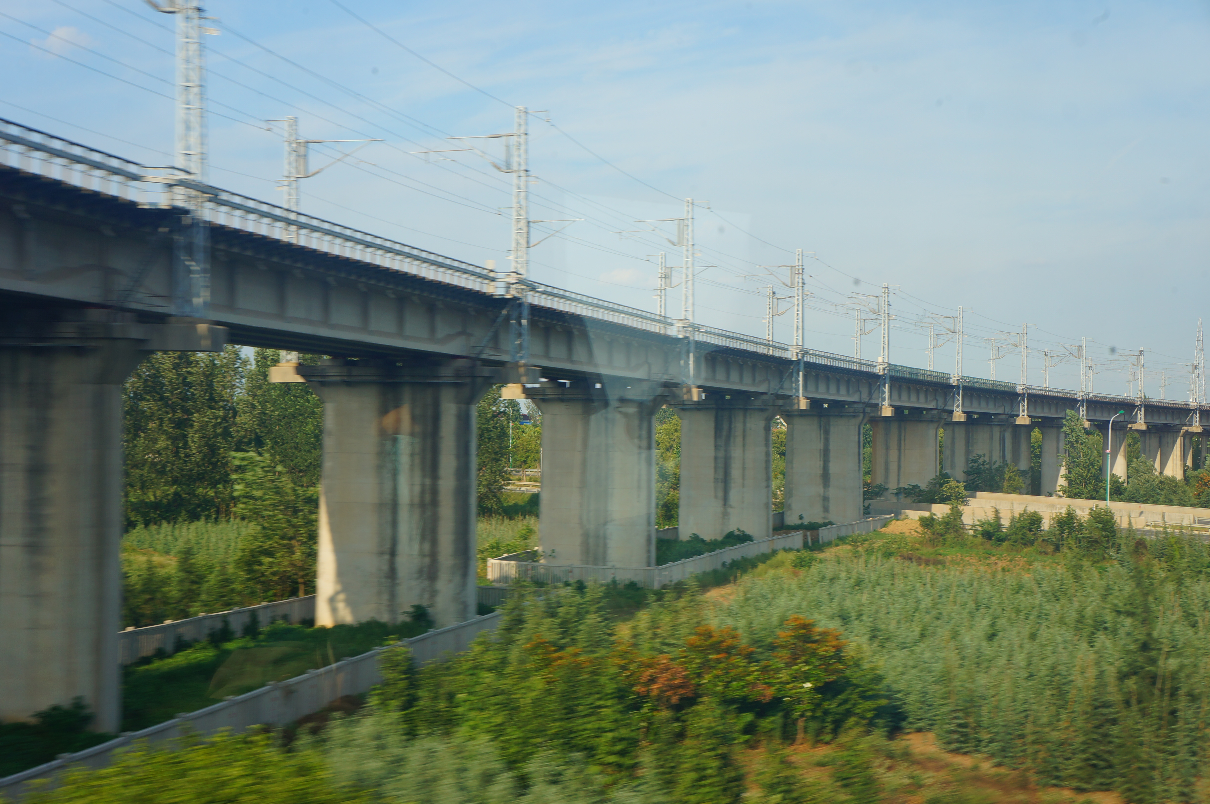 201806 Nanjing-Hefei Railway near Yongningzhen Station